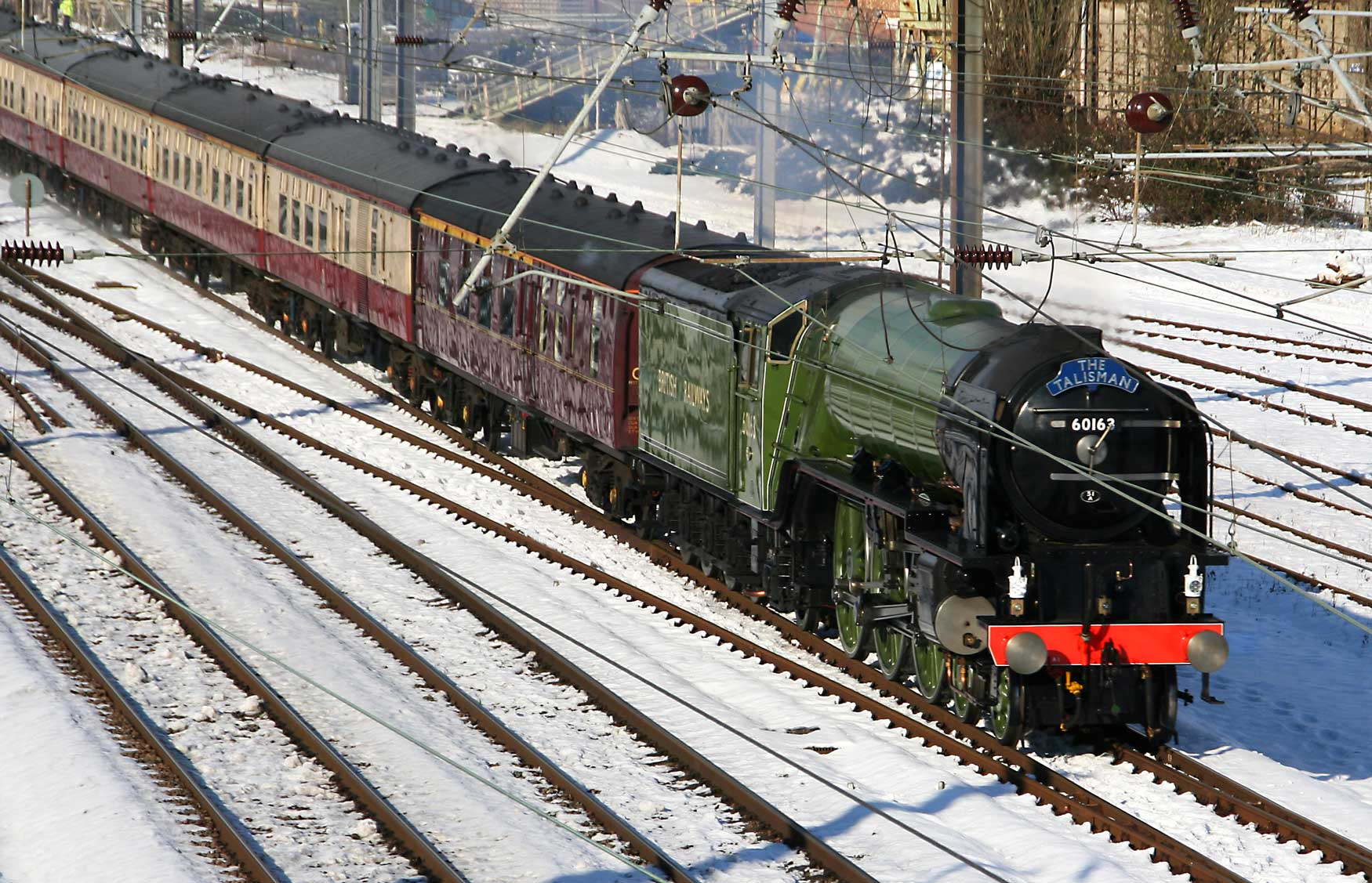 Brand new steam locomotive 60163 Tornado on her first main line passenger journey to London, The Talisman, 7 February 2009. Original Flickr description: Newly built A1 Class engine, Tornado, passes Tallington Junction in February snow en route to King's Cross